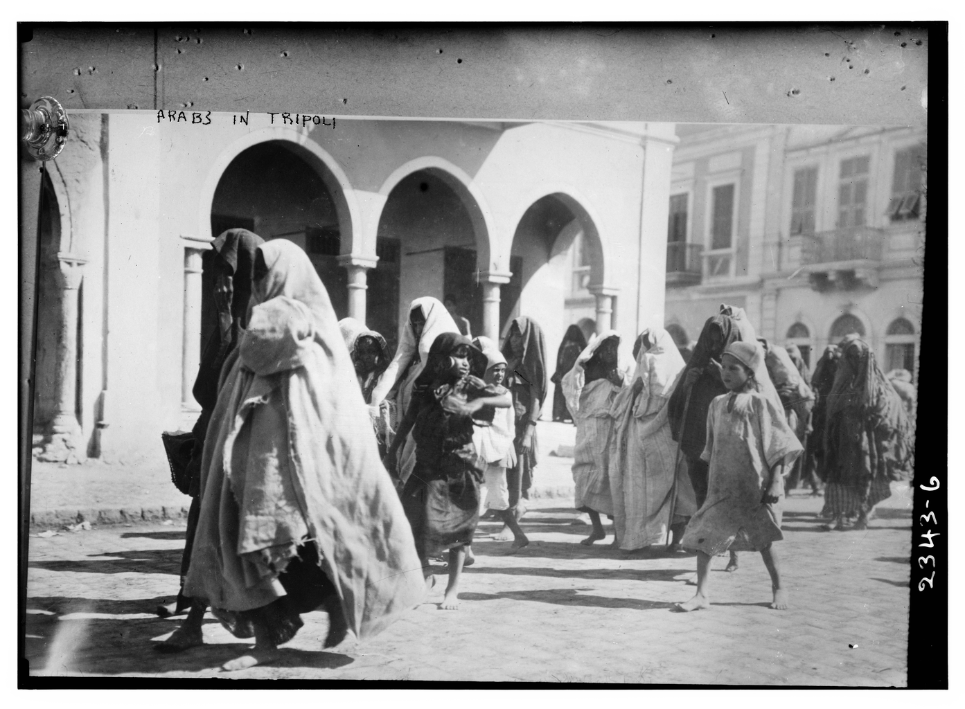 This photograph of a street scene in Tripoli, Libya, is from the George Grantham Bain Collection at the Library of Congress. The collection contains approximately 40,000 glass plate negatives and 50,000 photographic prints, most dating from the 1900s to the mid-1920s. Bain, who was born in 1865 and died in 1944, founded the New York-based Bain News Service in 1898. Specializing in news about New York City and, to a lesser degree, the eastern United States, Bain distributed its own pictures and those purchased from other commercial agencies to about 100 newspapers. While focusing on the United States, the Bain News Service also provided coverage of other countries. Although little information about this photograph has survived, it most likely was acquired and distributed by Bain in connection with news of the 1911-12 Italo-Turkish War in which Italy wrested control of Libya from the Ottoman Empire. Street scenes; Turco-Italian War, 1911-1912; Women